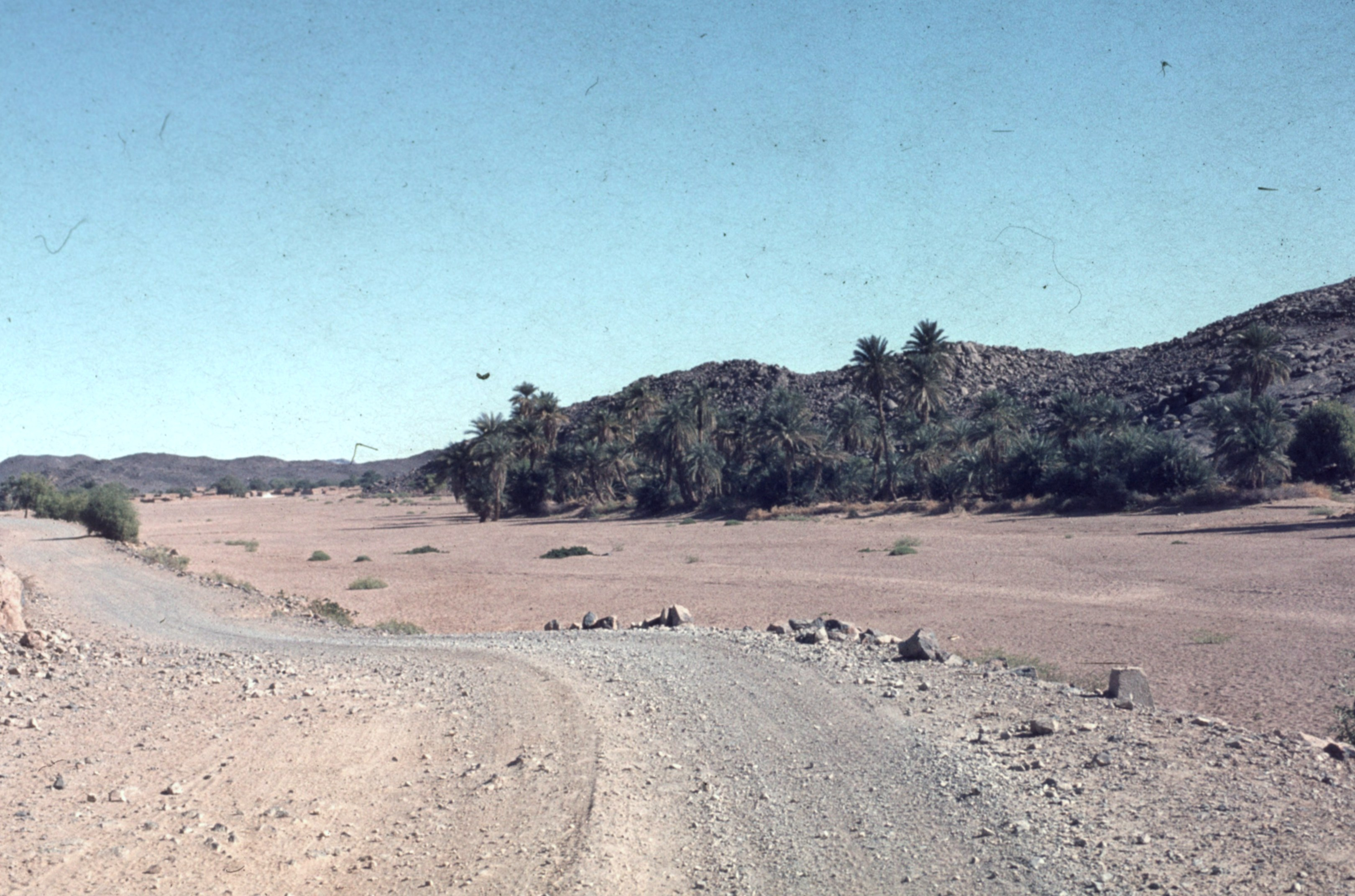 An oasis to the south of Tesalit. After looking at Google Earth (32 years after taking the picture), the author believes that this was taken about 1km south of Tessalit